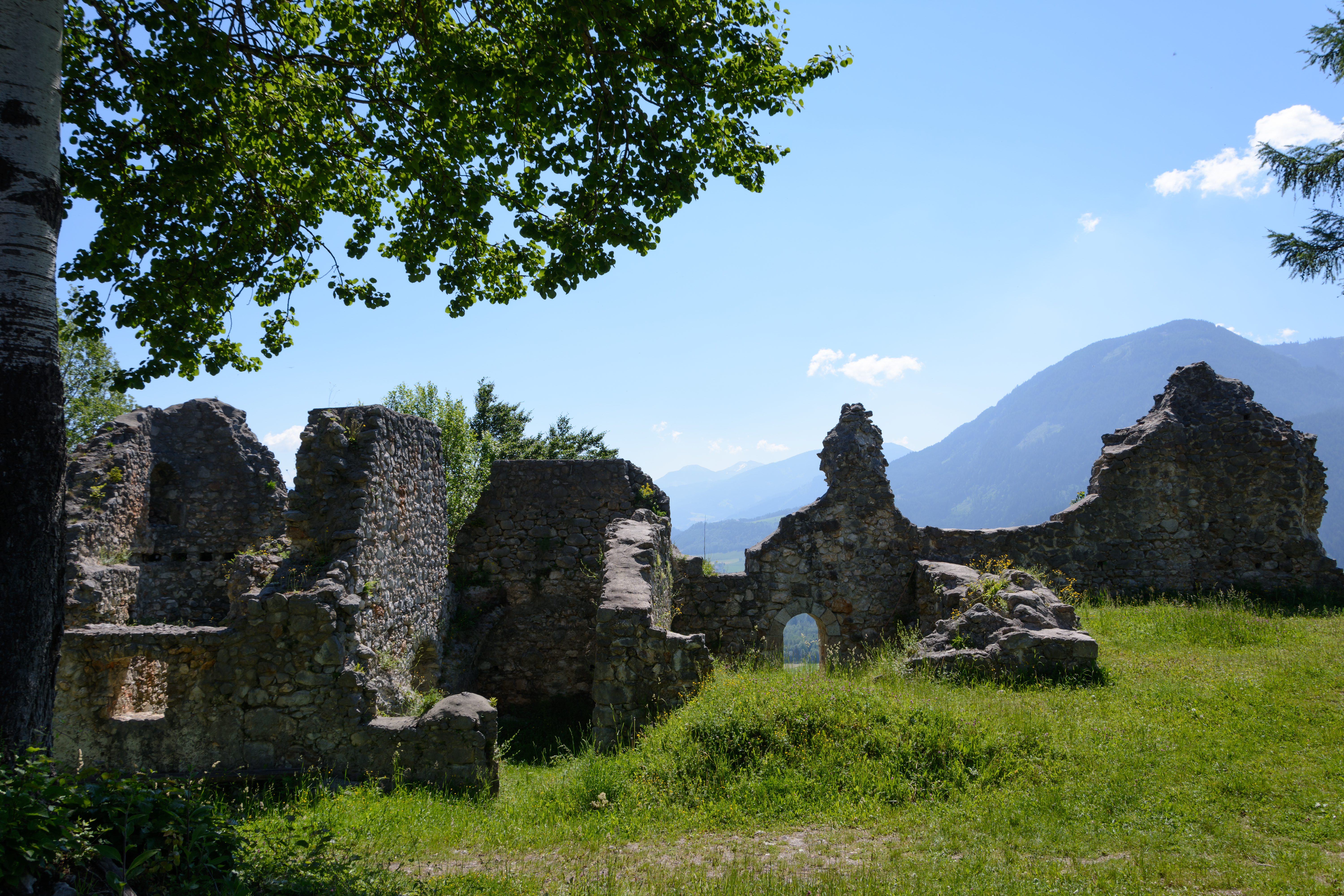 Castle ruins of Wolkenstein near Wörschach, Styria, Austria